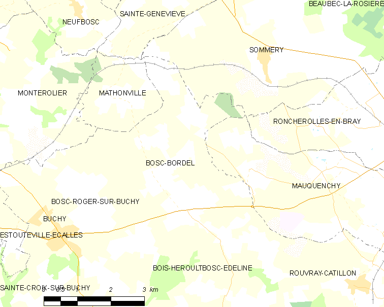 Map of French municipality Bosc-Bordel